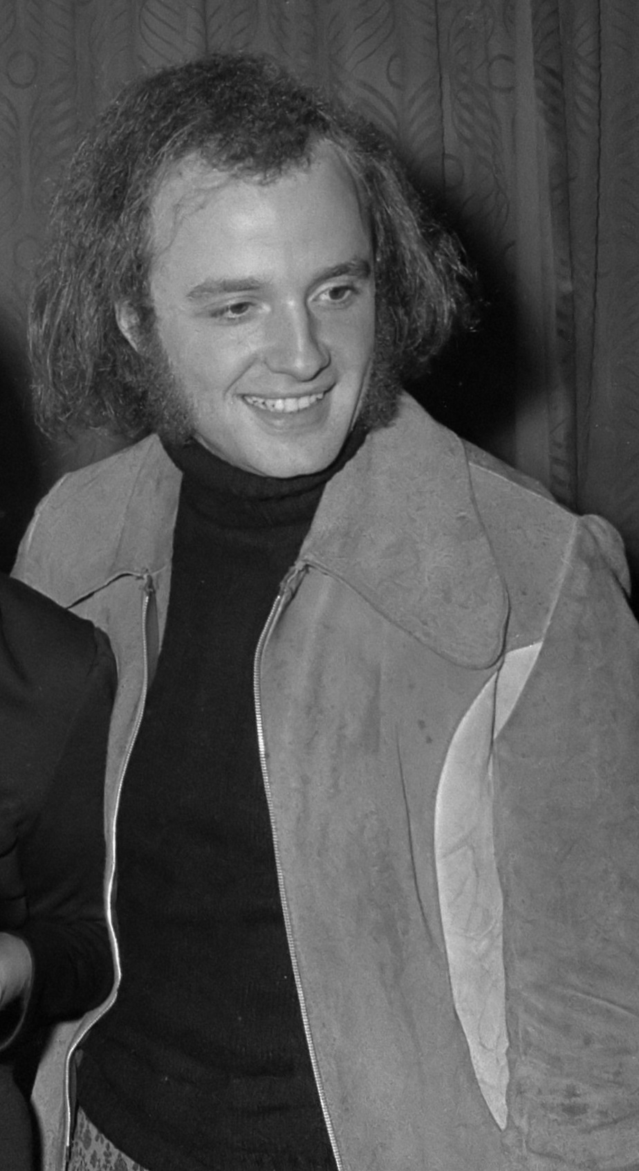 Thijs van Leer on 15 November 1971.